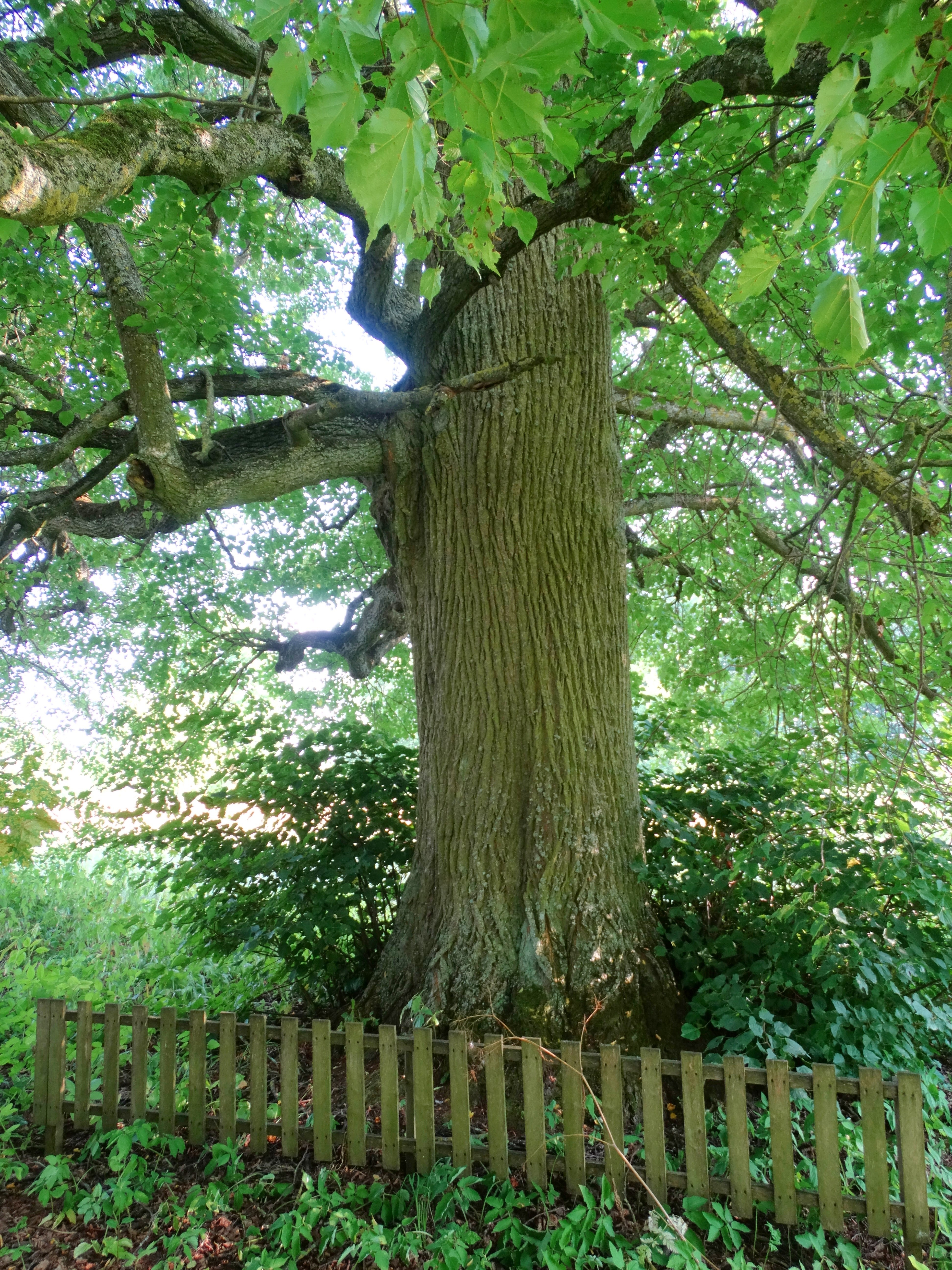 Lime tree in Magnus Butleris' manor, Žvelgaičiai, Joniškis District, Lithuania